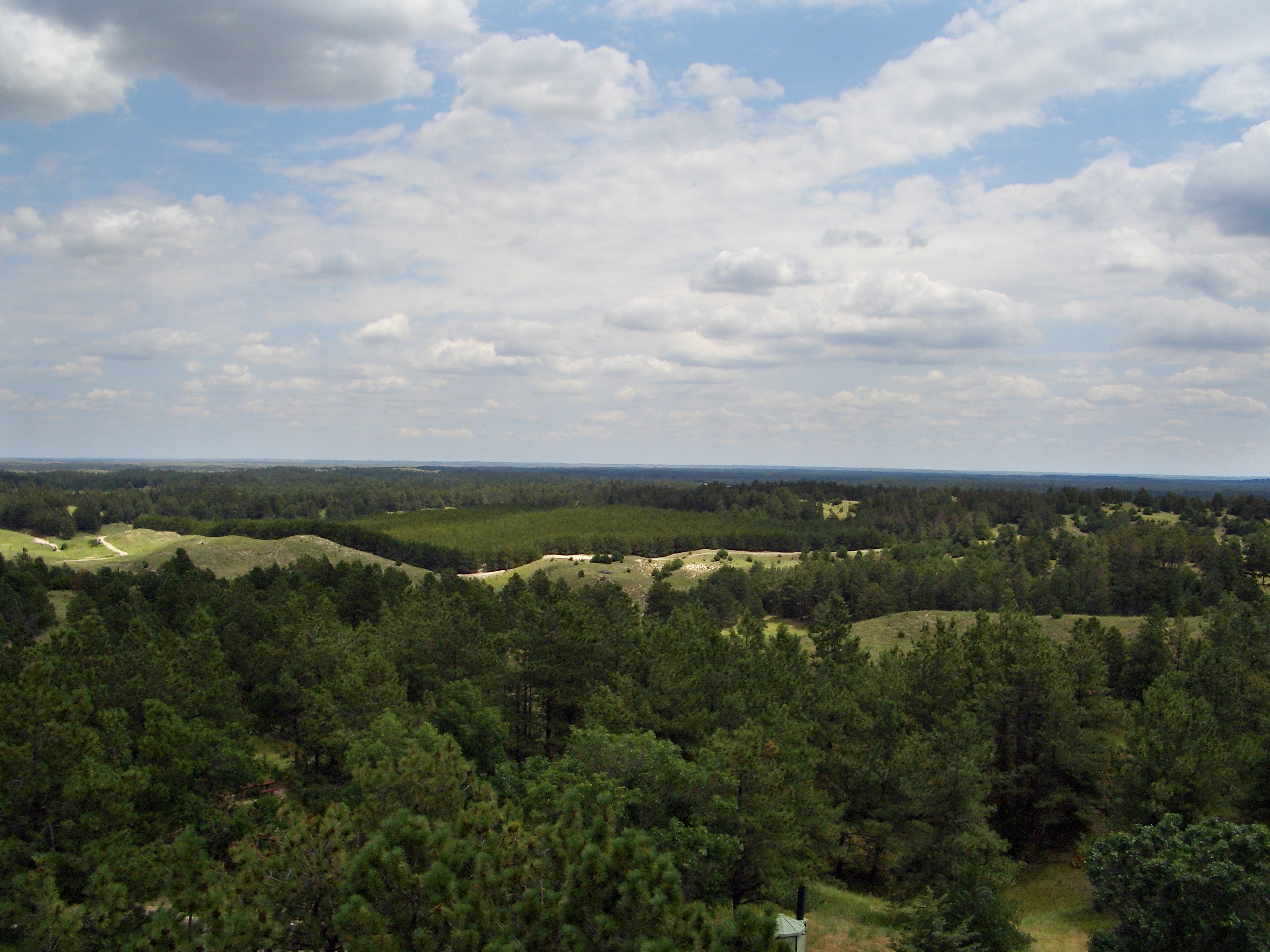 The Bessey Ranger District of the Nebraska National Forest, near Halsey, Nebraska, is the largest human-planted forest in the United States. This photo was taken from the top of Scotts Tower.